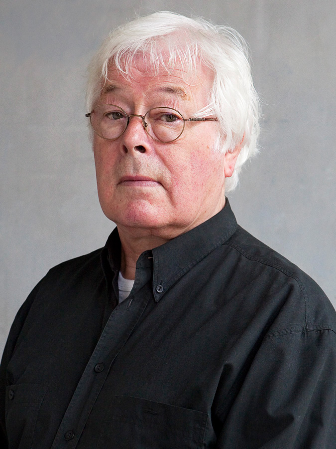 photo